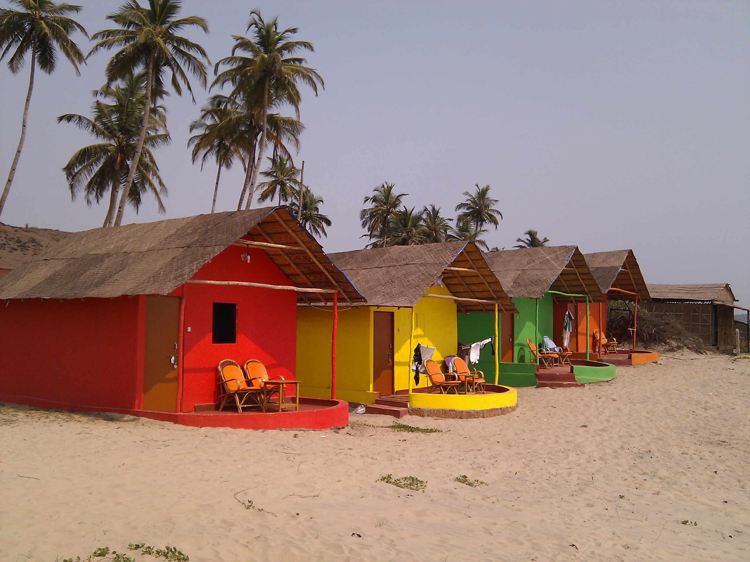 Bungalows for rent, discounts for colorblind